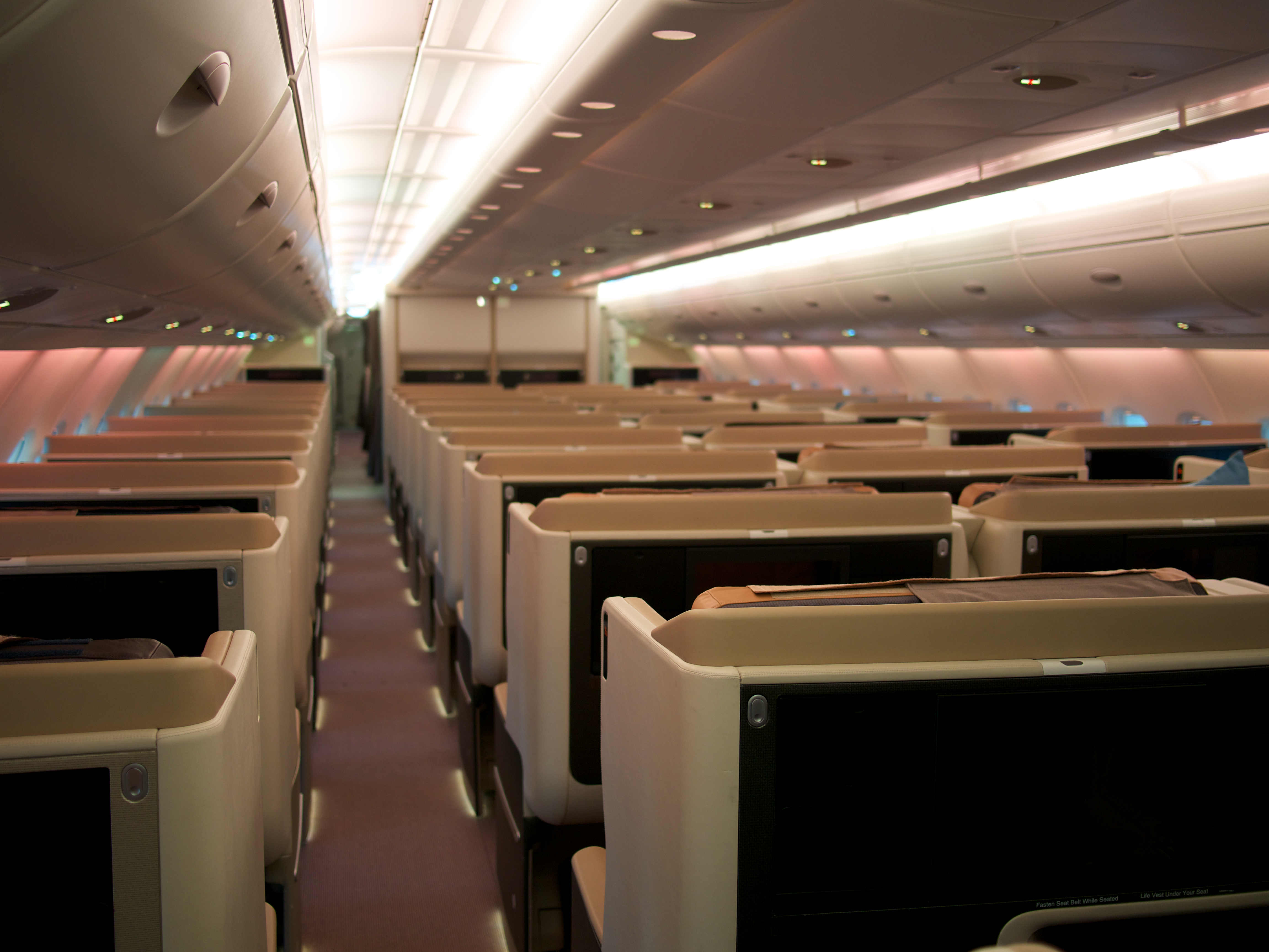 9V-SKC | A380-841 | Singapore Airlines| Business Class | Singapore